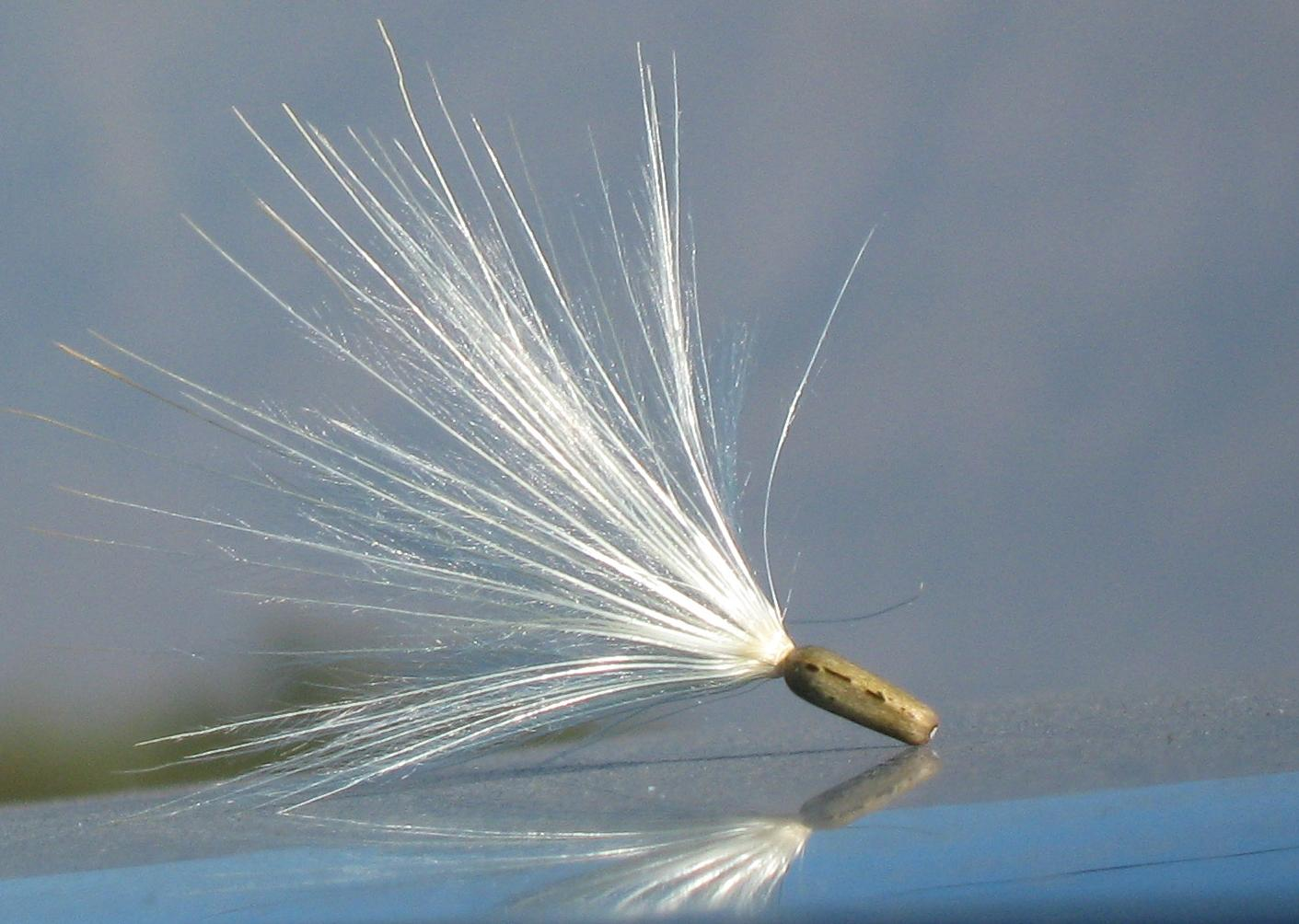 Cynara cardunculus cypsela